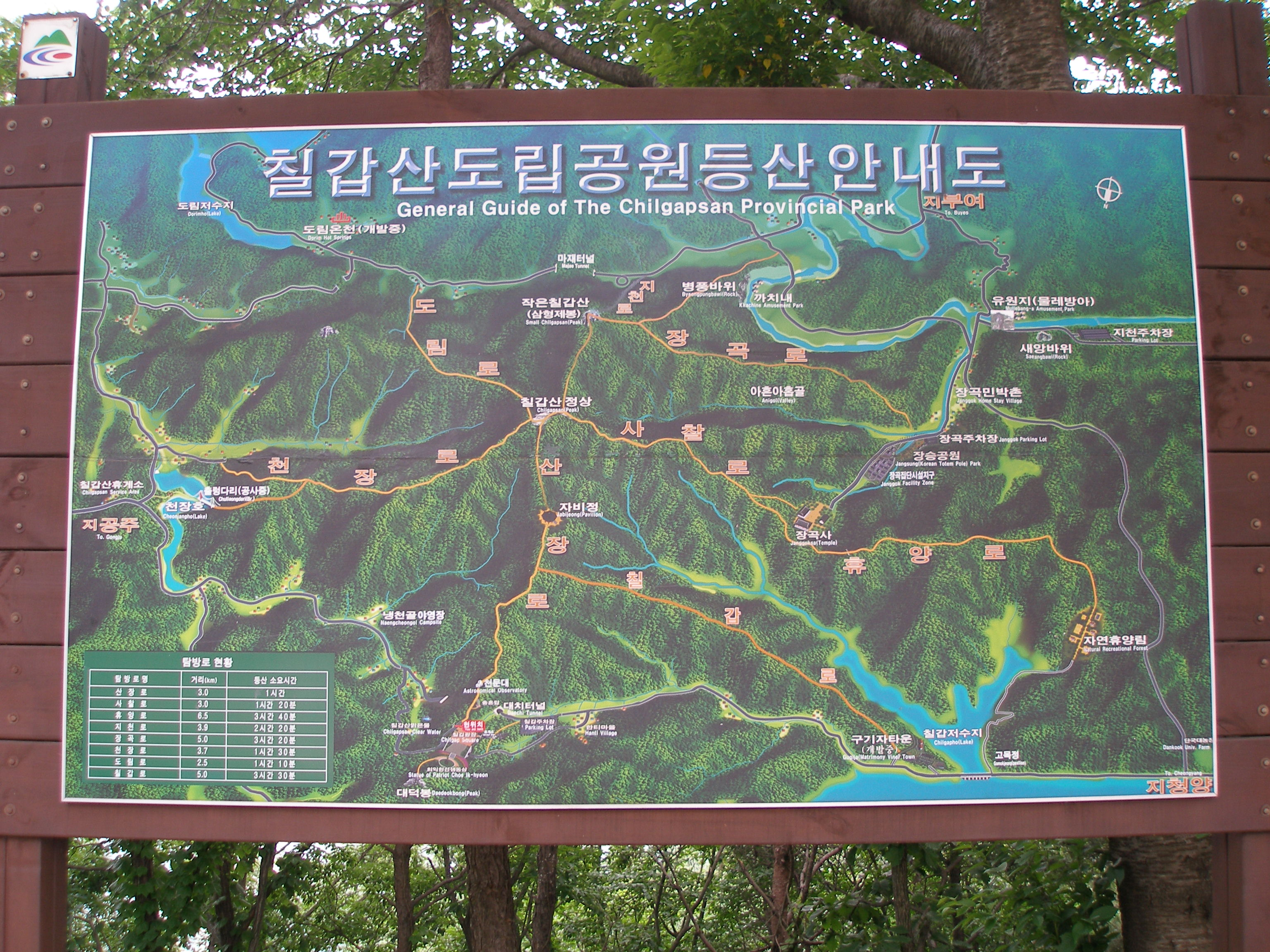 Map of Chilgap mountain in Chilgap Plaza